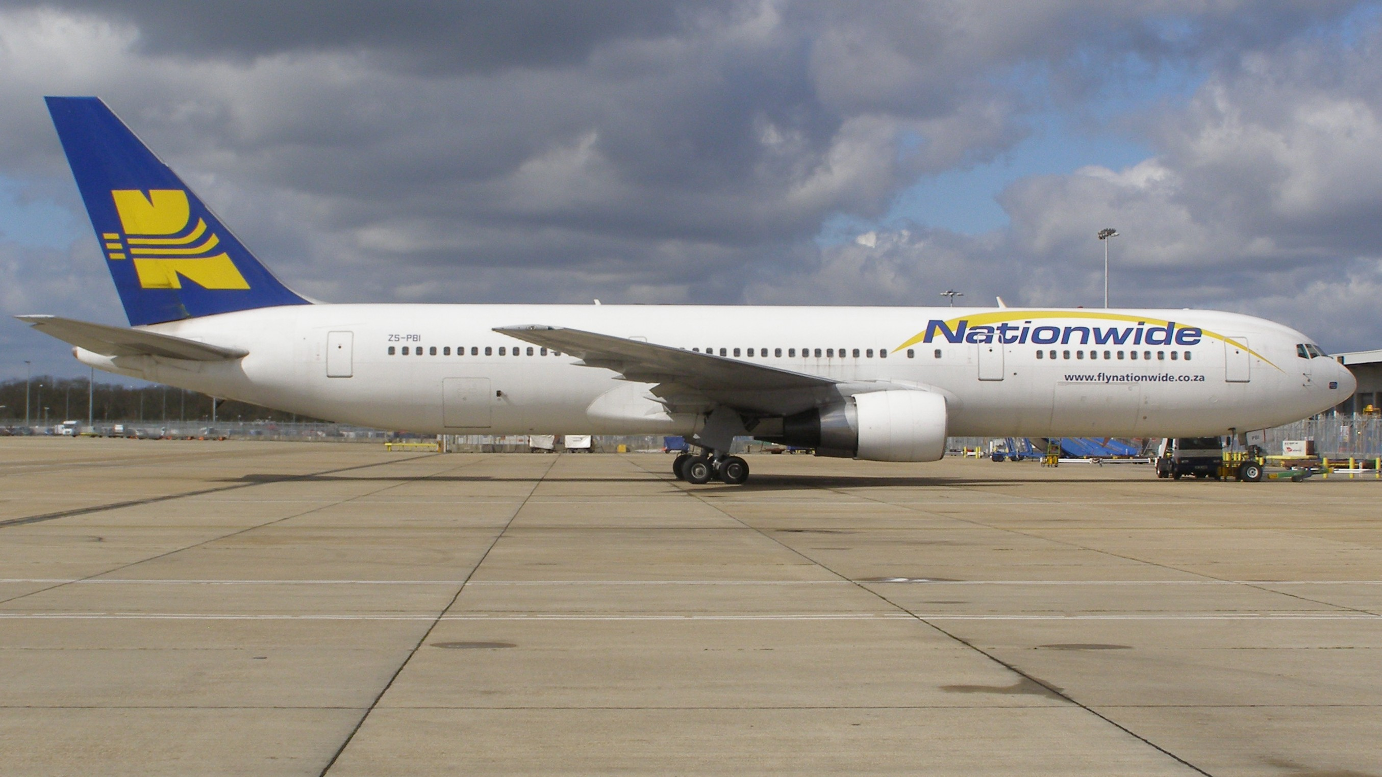 ZS-PBI Boeing 767 of Nationwide at London Gatwick Airport.